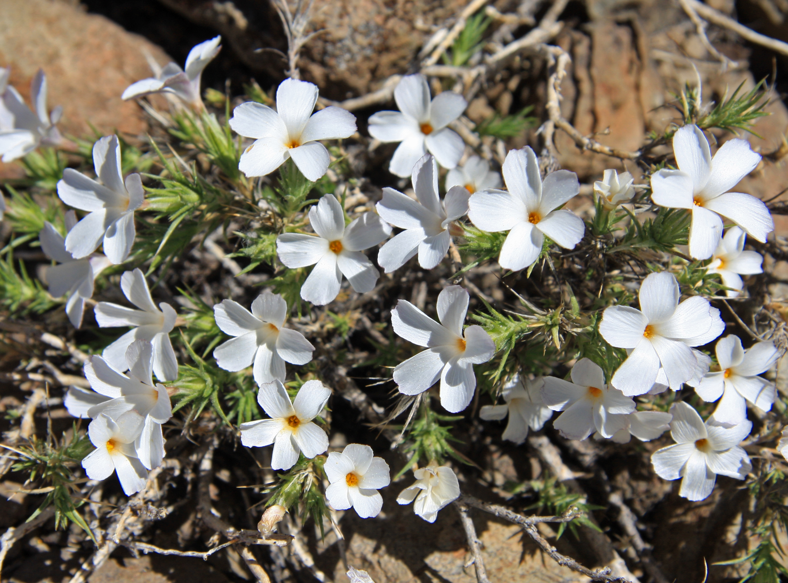 Granite gilia (Leptodactylon pungens) closeup of 5-petaled, white trumpet flowers with golden center. At 9300ft along High Trail (part of Pacific Crest Trail) from Agnew Meadows to Agnew Pass, Ansel Adams Wilderness, California.